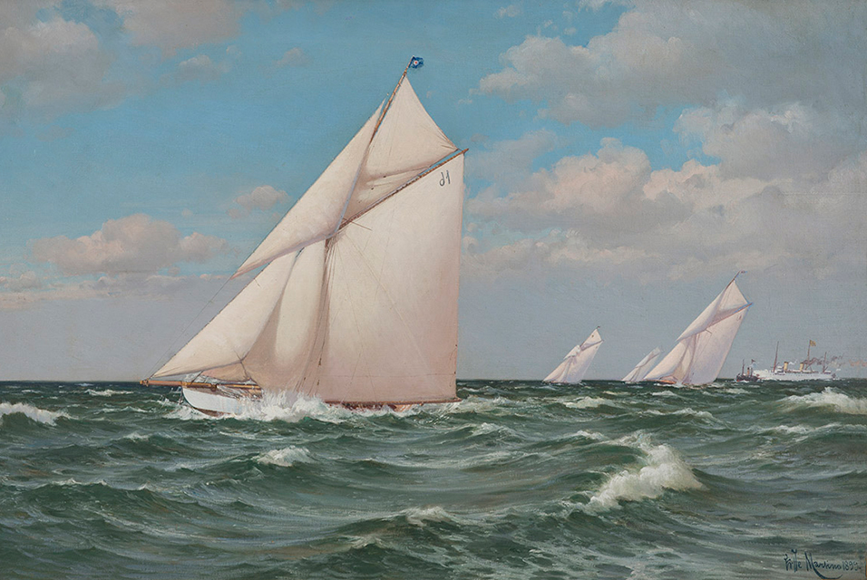 The painting depicts the American yacth Columbia, defender at the 10th America's Cup challenge